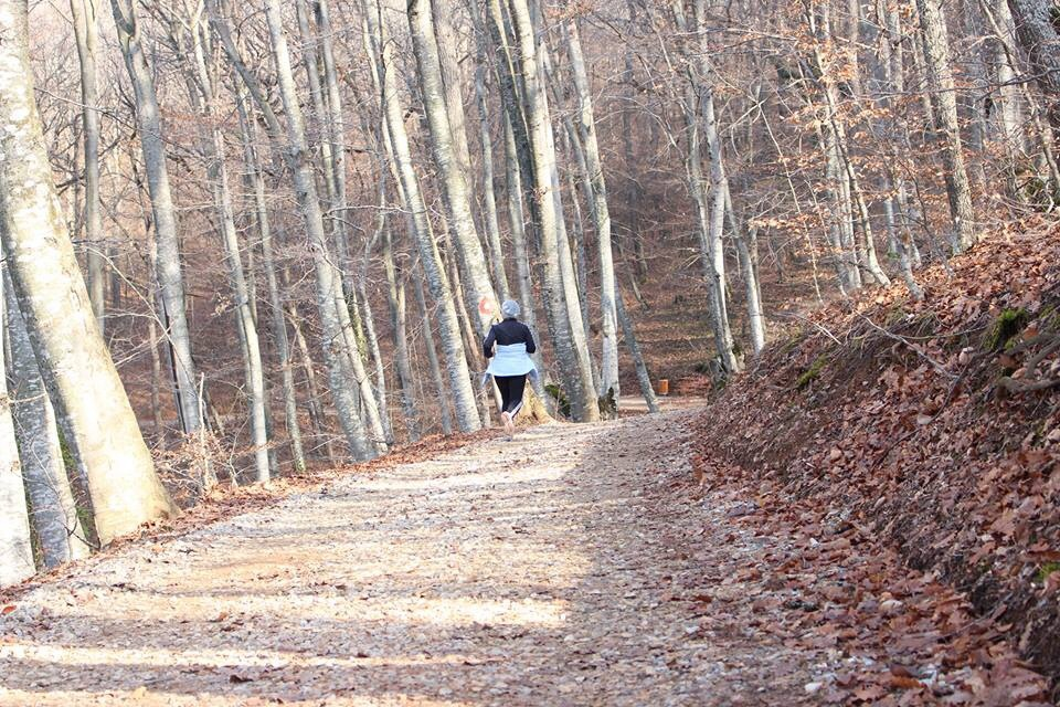 Germia national park Prishtina